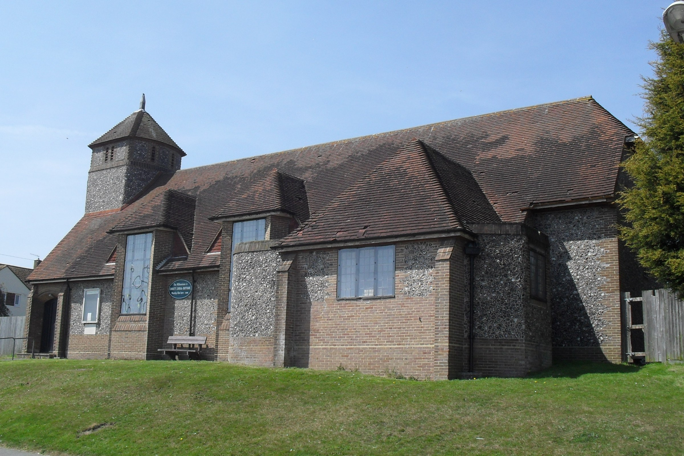 St Anne's Church, Chambers Road, Hollington, Hastings, East Sussex, England, seen from the east